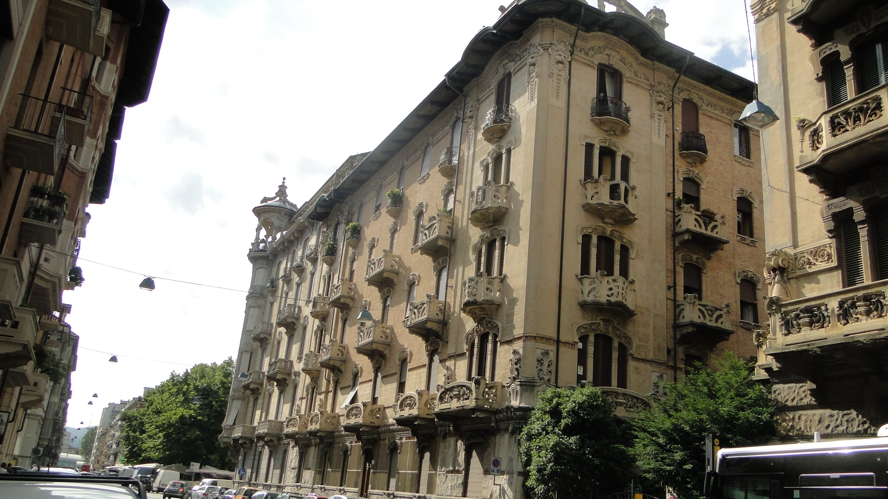 Art Nouveau in Turin - 17th, Duchessa Jolanda street